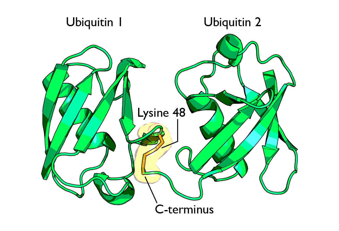 A cartoon representation of a lysine 48-linked diubiquitin molecule. The two ubiquitin chains are shown as green cartoons with each chain labelled. The components of the linkage are indicated and shown as orange sticks. Image was created using PyMOL from PDB id 1aar.